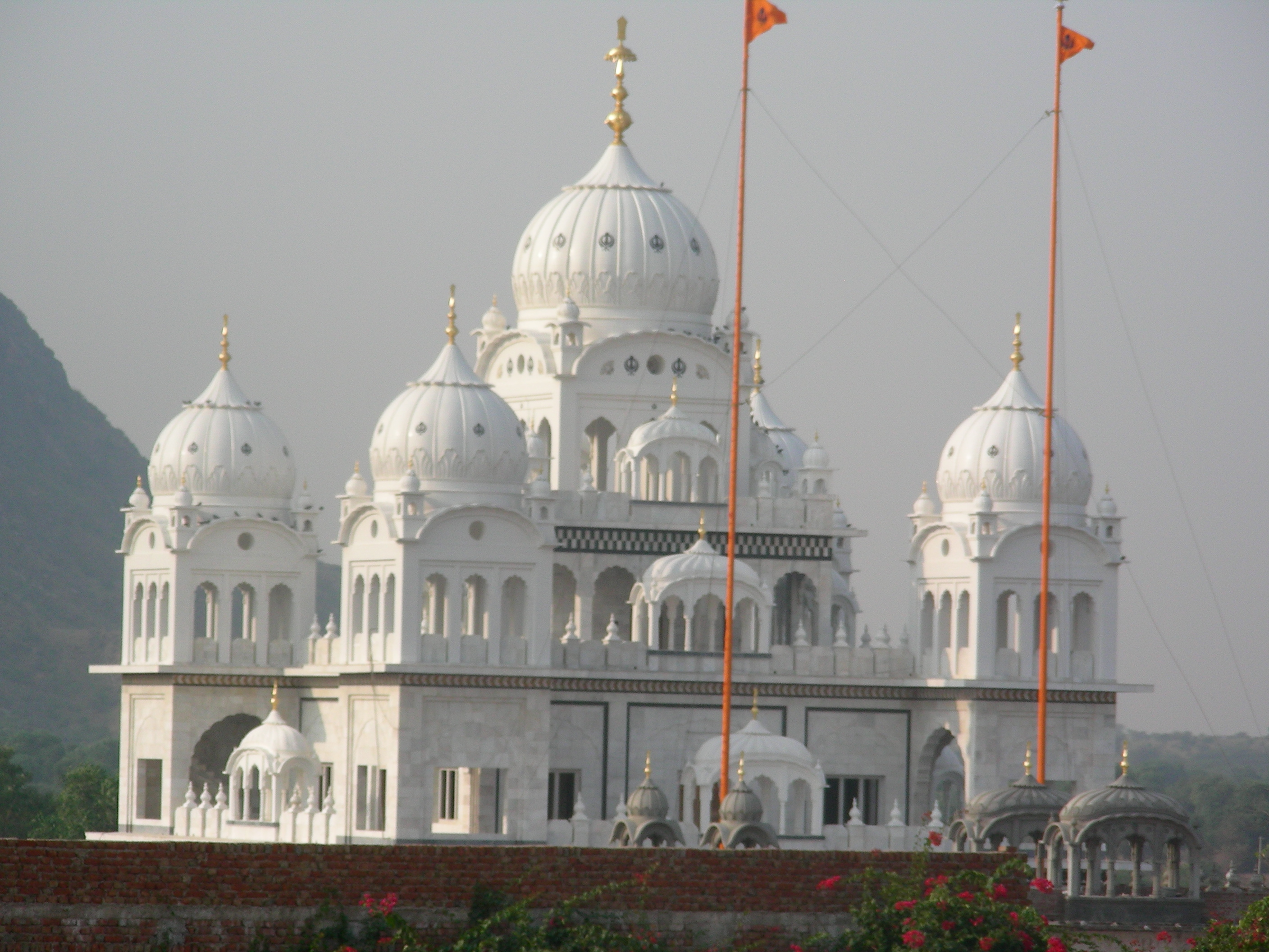 Pushkara has two major Gurdwaras, one dedicated to Guru Nanak and another to Guru Gobind Singh. There is also a ghat named Gobind ghat, which marks the place he stayed in 1705/1706 after leaving Anandpur Sahib.